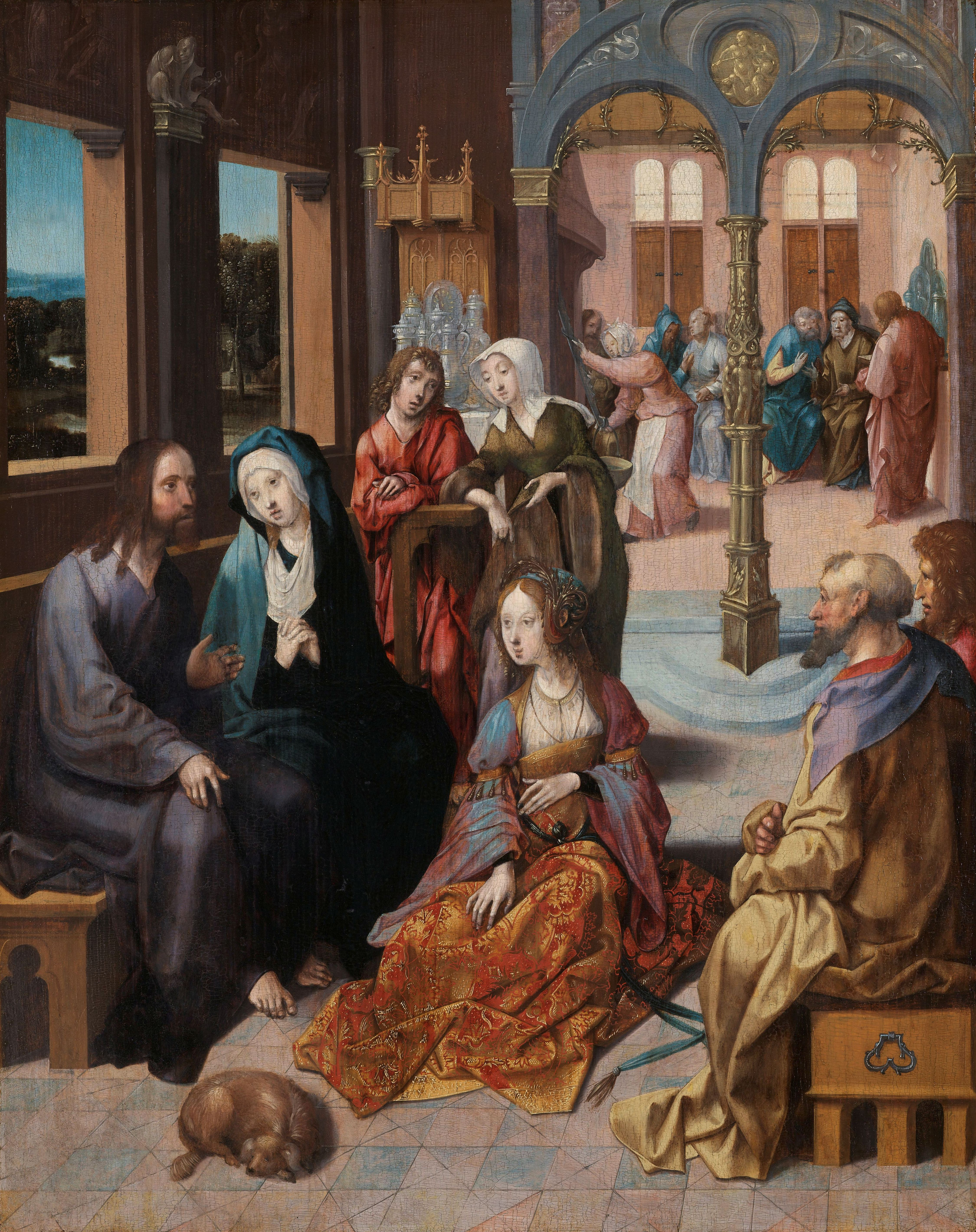 Interior with Christ in the house of Mary and Martha. To the left Christ is sitting next to his mother Mary speaking to some of his disciples. On the floor in front of him Mary, Martha's sister, is kneeling. In the background Martha is working by the fireplace. Above the archway to the kitchen a relief with the death of Lucretia is placed.